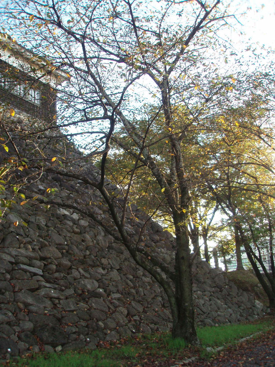 Watchtower,Kameyama castle (Kameyama,Mie)